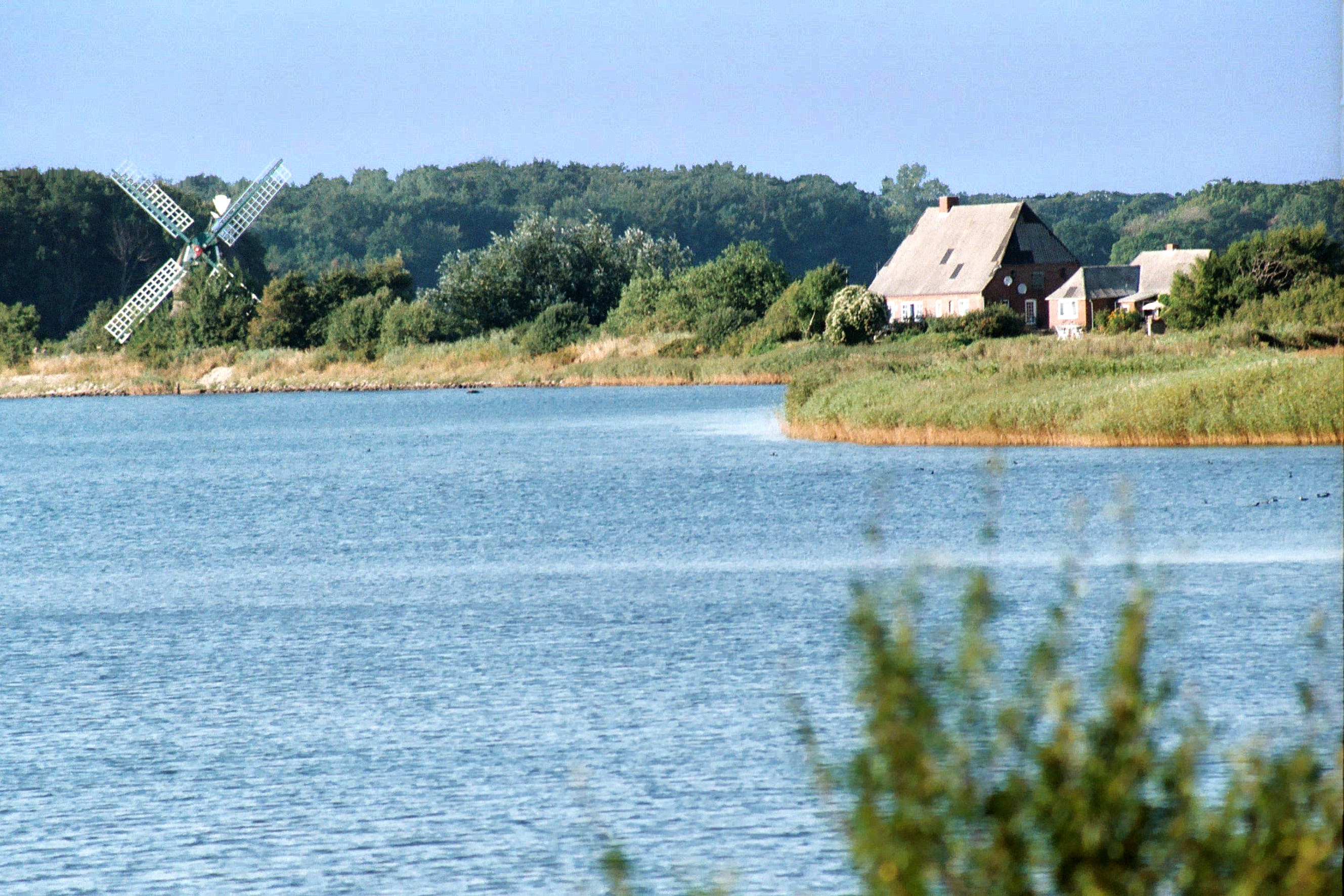 the windmill "Charlotte" in Nieby This is a photograph of an architectural monument.